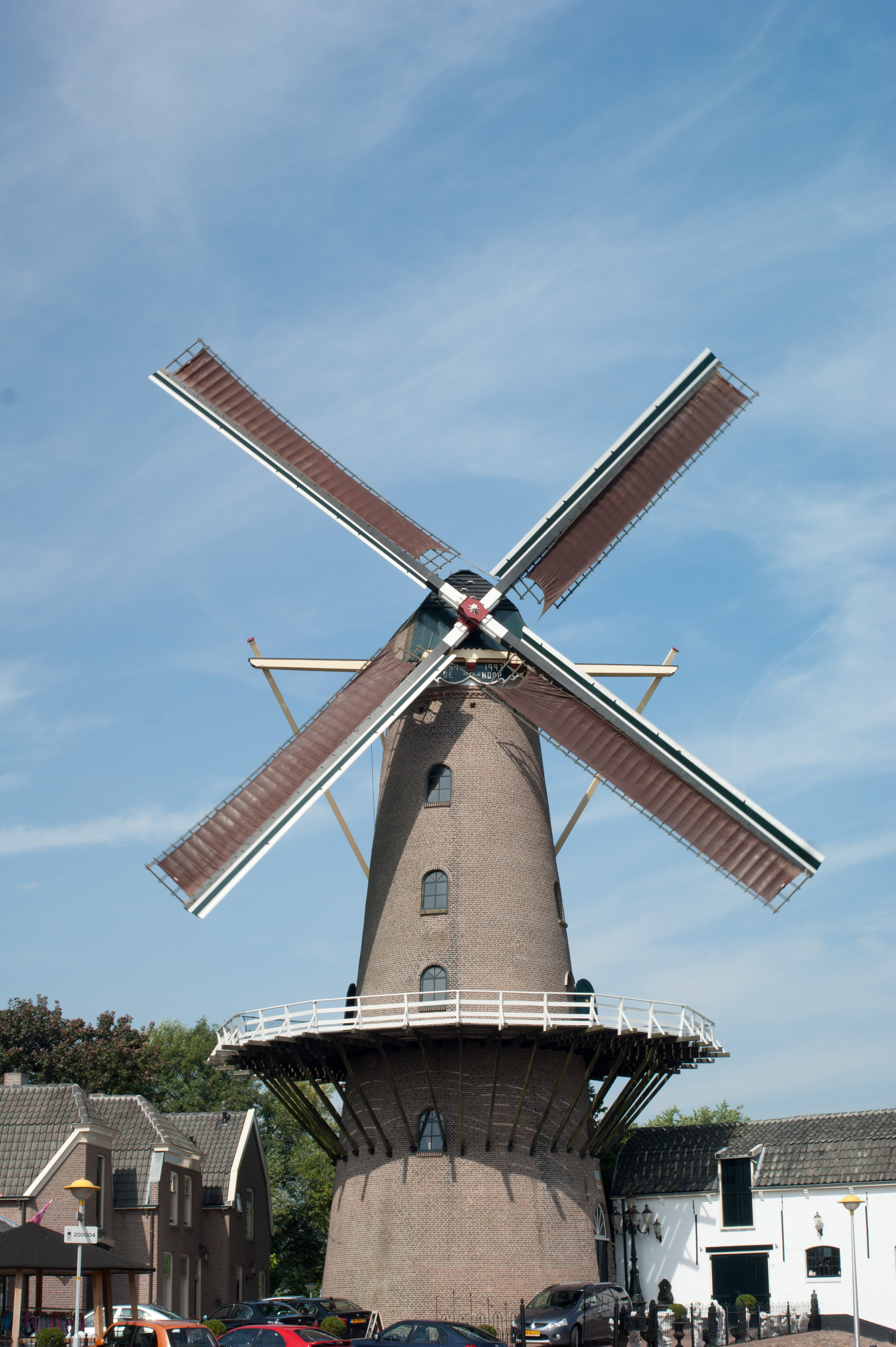 Molen de hoop Culemborg.